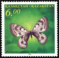 Stamp of Kazakhstan